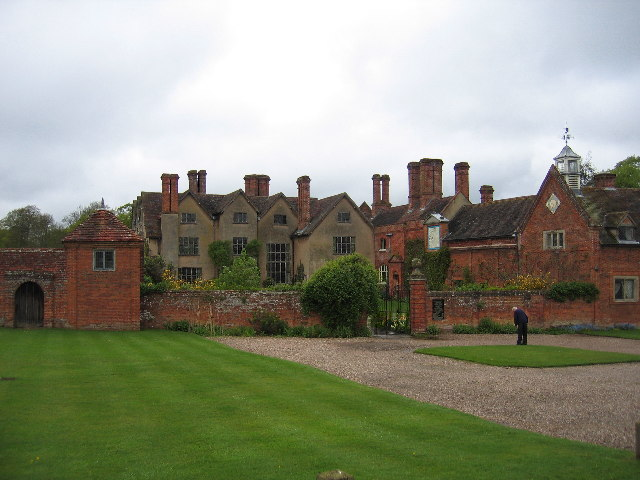 Packwood House. A National Trust property popular with local visitors